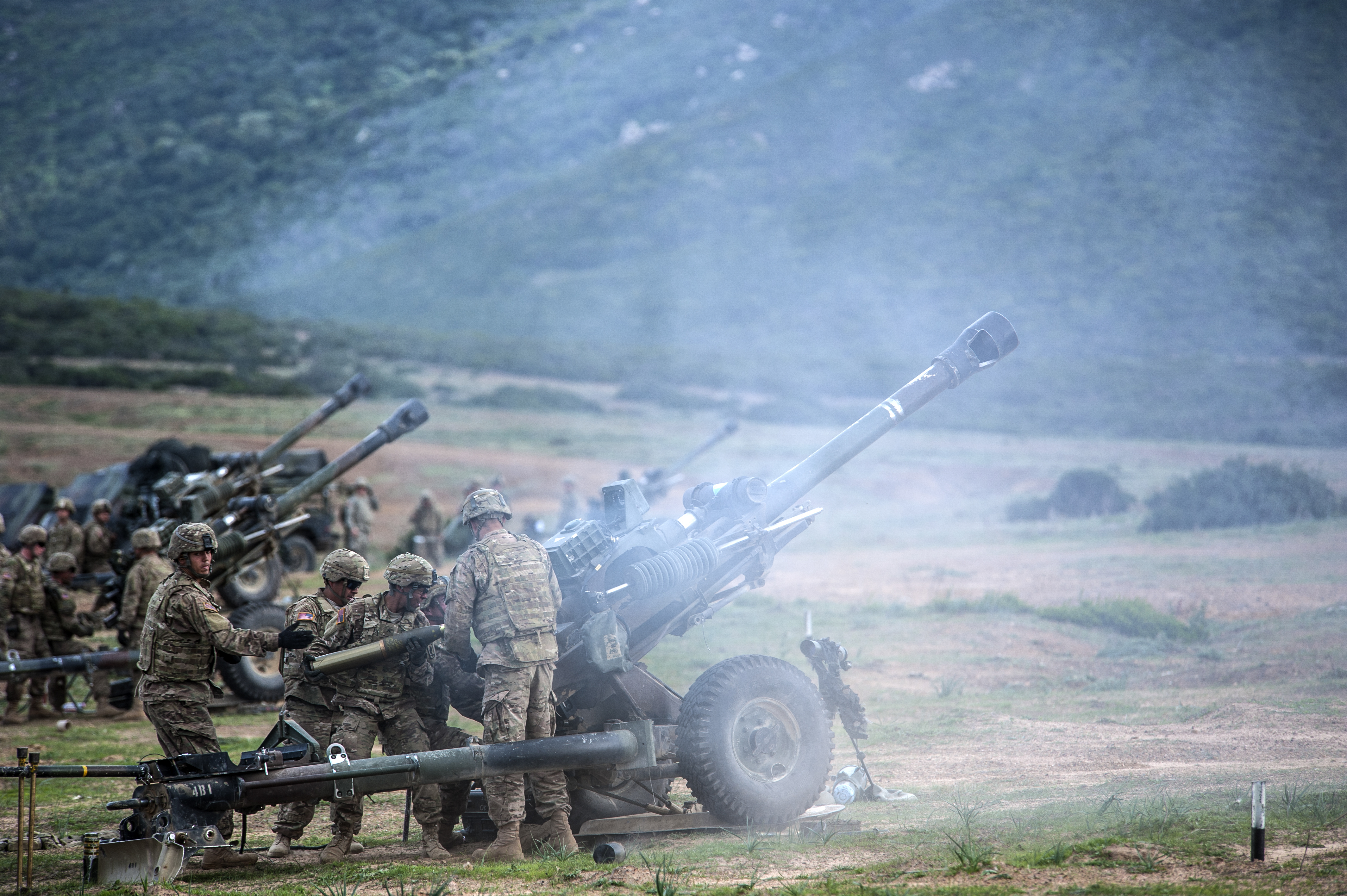 US Artillery Live Fire Exercise in Capo Teulada, Sardinia, Italy on November 02, 2015 during NATO exercise Trident Juncture 15. NATO Local PAO Capo Teulada Esercitazione Trident Juncture 2015 - Attività a fuoco artiglieria USA NATO photo by Davide Passone